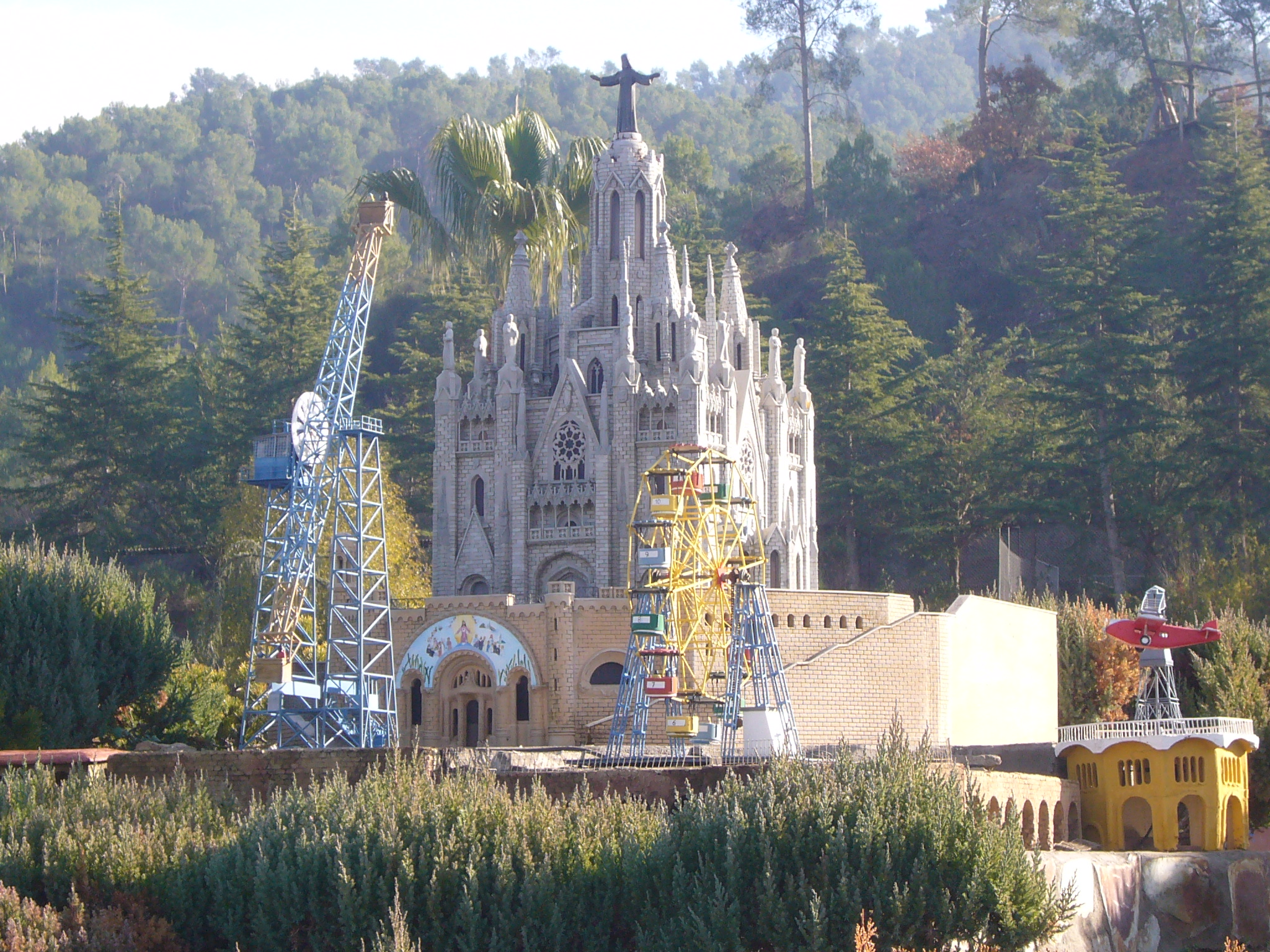 Scale model at the "Catalunya en Miniatura" miniature park : Tibidabo, with ferry wheel and Sagrat Cor church